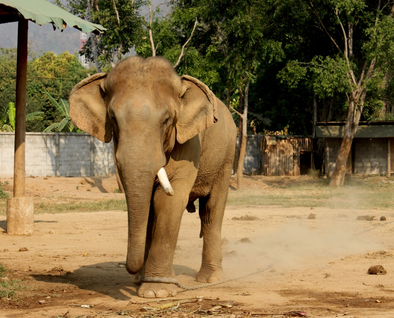 A domesticated bull elephant in Thailand is chained up during his period of musth.